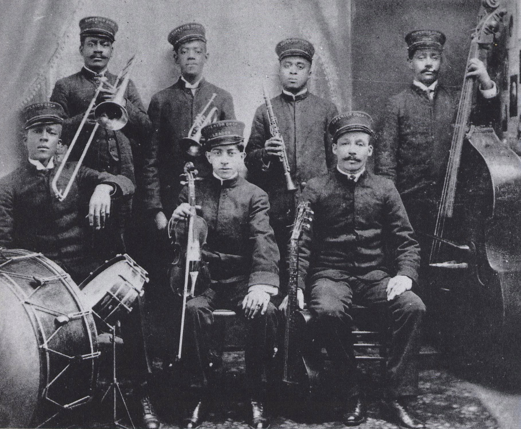 Standing, left to right: Buddy Johnson, trombone; Willie "Bunk" Johnson, cornet; "Big Eye" Louis Nelson Delisle, clarinet; Billy Marrero, string bass. Seated, left to right: Walter Brundy, drums; Peter Bocage, violin & leader; Richard Payne, guitar.